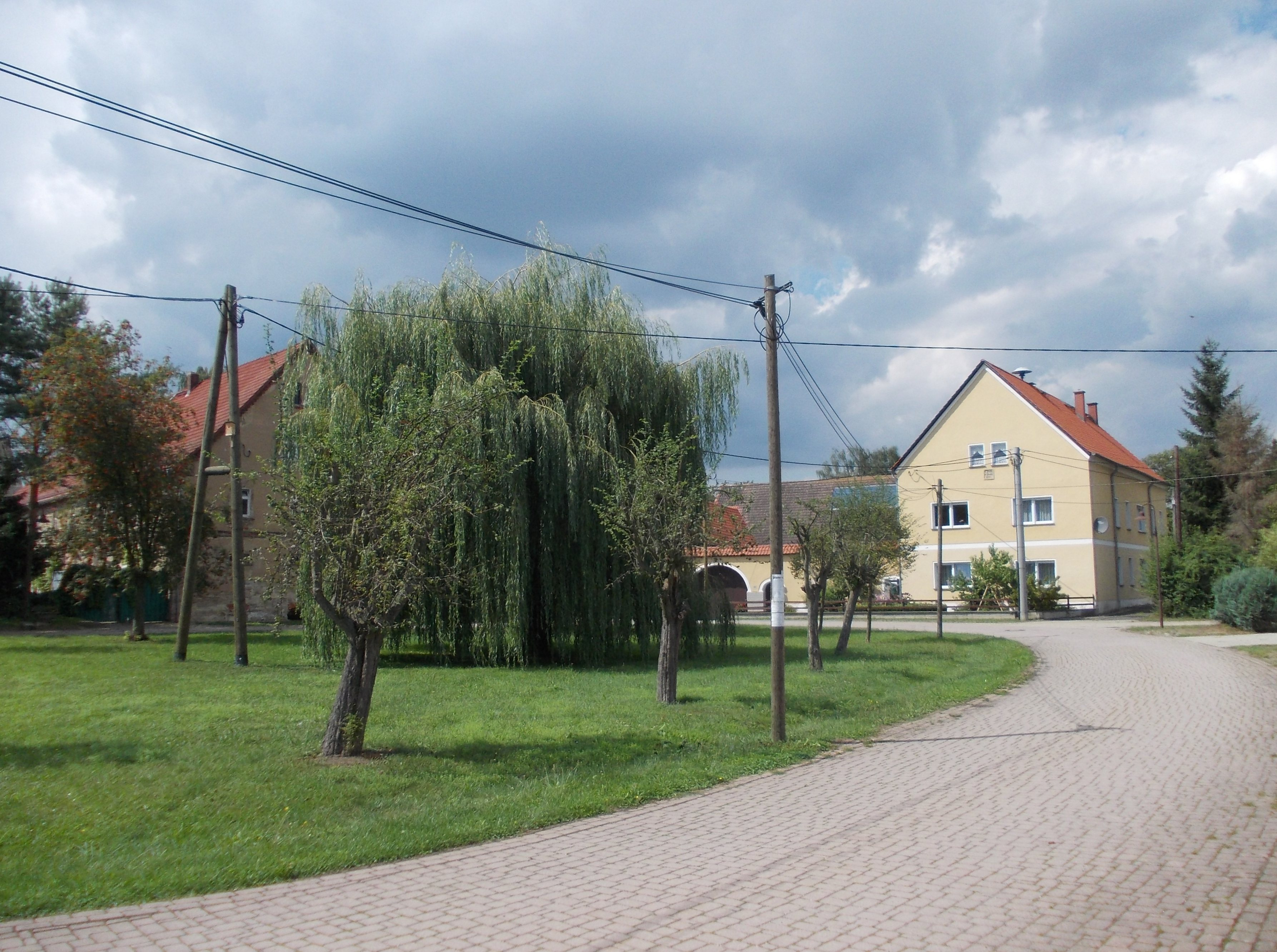 Village green in Grosspörthen (Schnaudertal, district: Burgenlandkreis, Saxony-Anhalt)